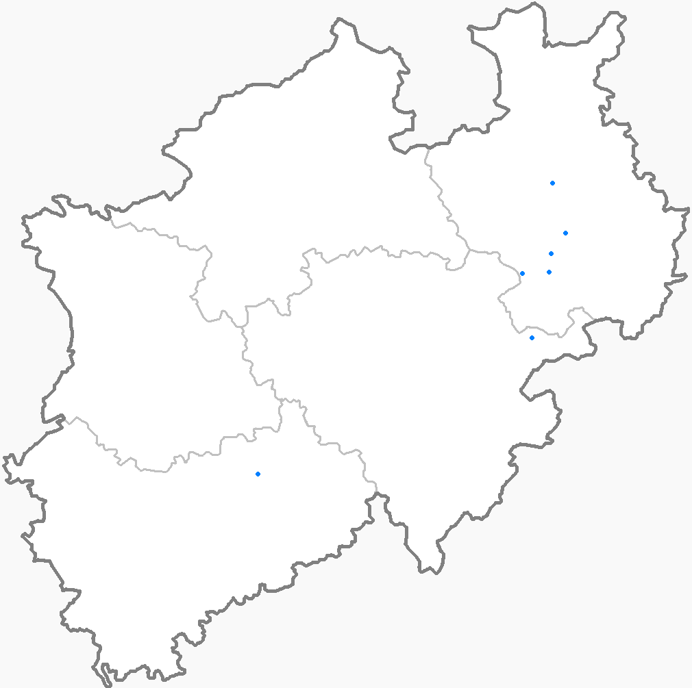 Approximate location of karst springs in North Rhine-Westphalia (Germany). The file shows karst springs are listed in the "List of karst springs in Germany" in the german Wikipedia. For questions and suggestions contact the author. Country border District border Karst spring